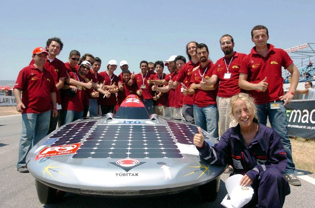 2006 formula-g